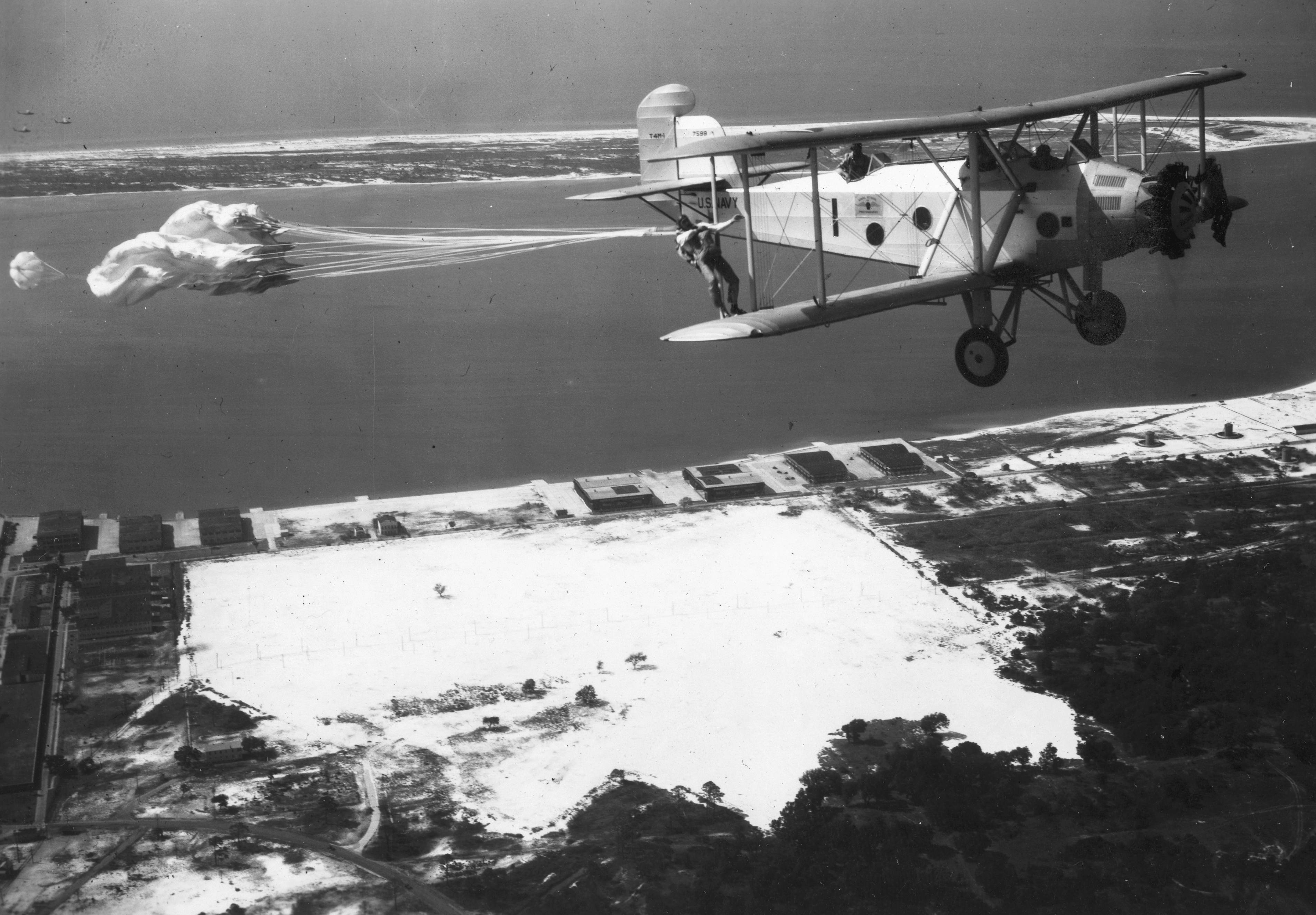 A U.S. Navy parachutist preparing to jump from a Martin T4M-1 bomber (BuNo 7599) over Naval Air Station Pensacola, Florida (USA).